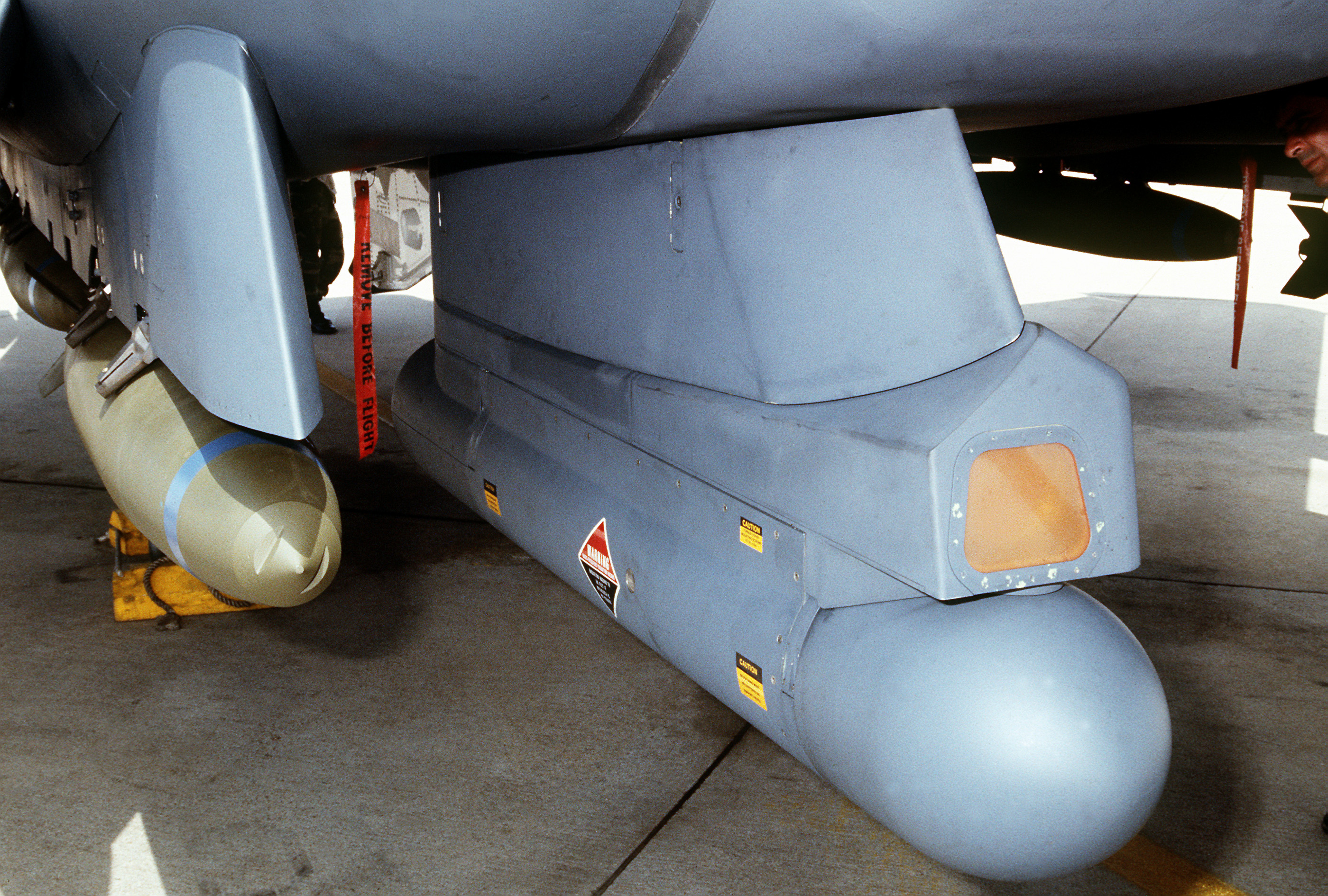 A close-up view of Mark 5 bombs and a low altitude navigation targeting infrared for night (LANTIRN) pod on an F-15E Eagle aircraft. Location: SEYMOUR JOHNSON AIR FORCE BASE, NORTH CAROLINA (NC) UNITED STATES OF AMERICA (USA)